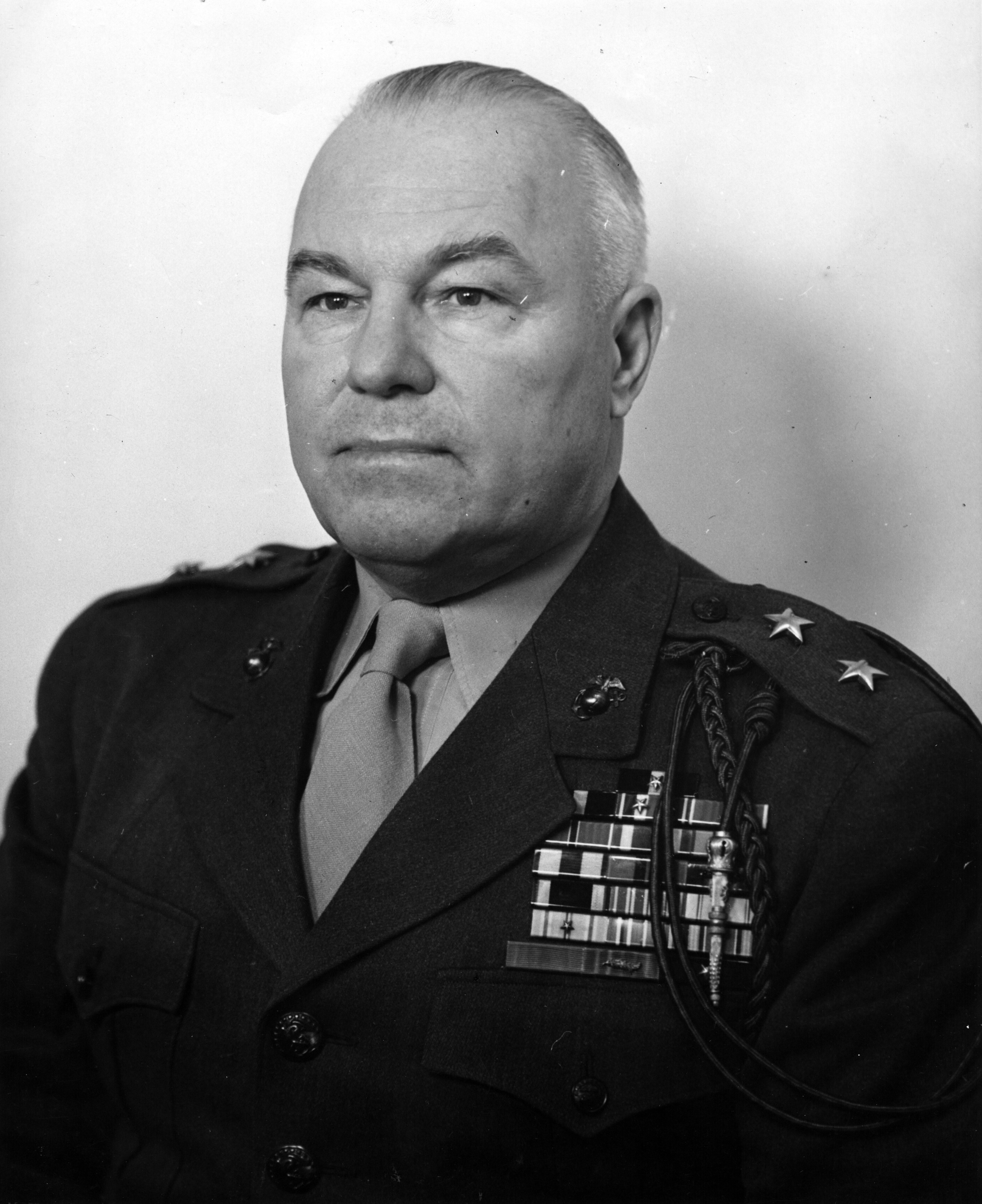 Lieutenant General Henry Louis Larsen (December 10, 1890 – October 2, 1962) was a United States Marine Corps officer, the second Military Governor of Guam following its recapture from the Empire of Japan, and the first post-World War II Governor of Guam. He also served as the Military Governor of American Samoa alongside civilian Governor of American Samoa Laurence Wild.